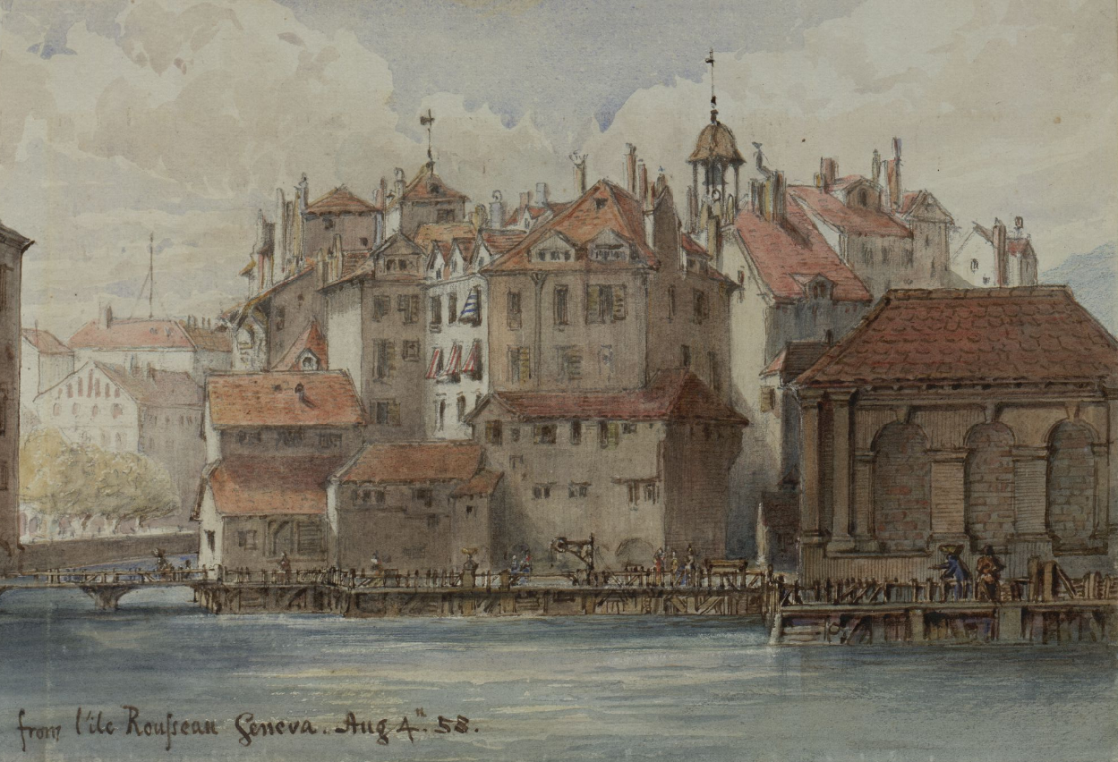 Examples of artwork on a variety of subjects and in a variety of styles by Francis Elizabeth Wynne from a sketchbook (ca. 420 drawings): mixed media, including watercolour, wash and, pen and ink.